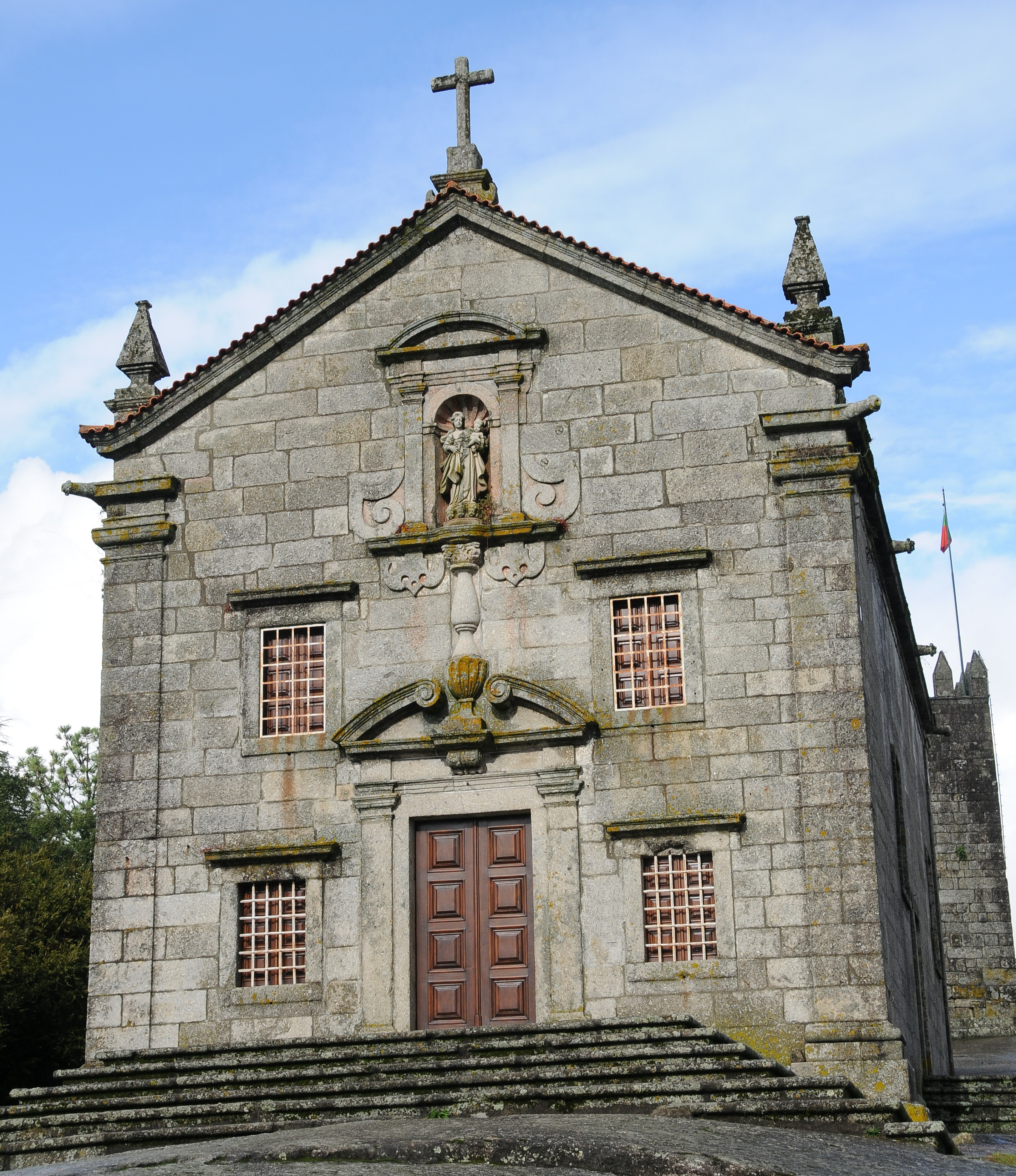 Nossa Senhora do Pilar Sanctuary in Povoa de Lanhoso, Portugal. (Located near the castle)